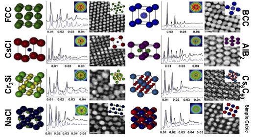 Adapted from Macfarlane, R. J., et al., Nanoparticle Superlattice Engineering with DNA. Science 2011, 334 (6053), 204-208. Copyright 2011 Science.